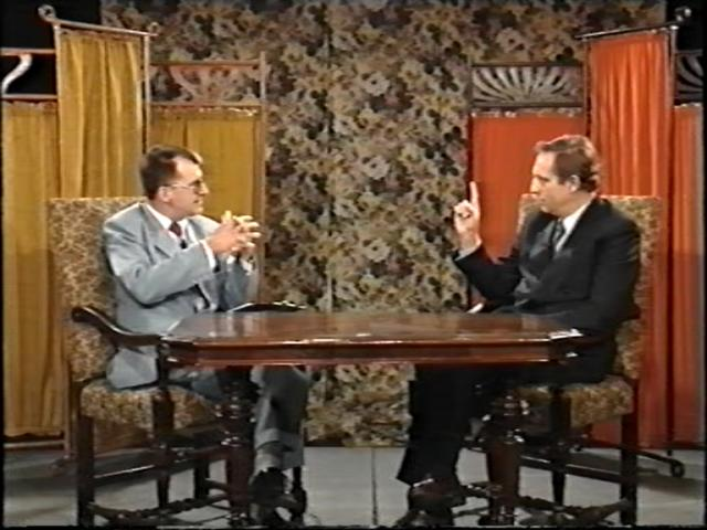 Andrzej Tadeusz Kijowski talk show with Krzysztof Piesiewicz